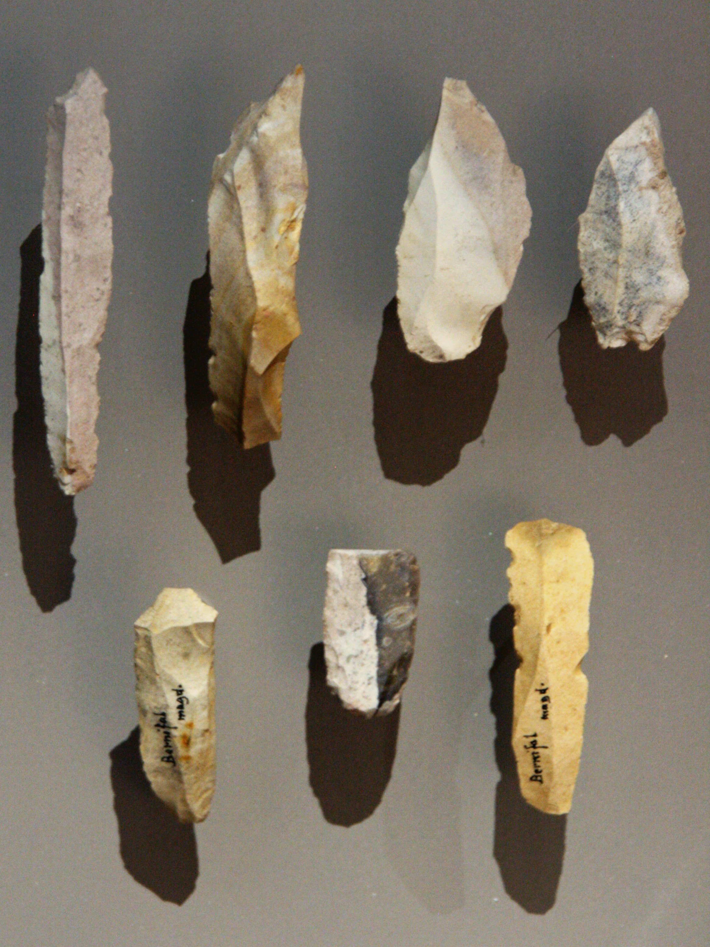 Burins and blades found by Denis Peyrony in Bernifal cave, Meyrals, Dordogne, France. Upper Magdalenian, near 12,000 - 10,000 BP. These tools can be seen in the National Prehistory Museum in Les Eyzies-de-Tayac.